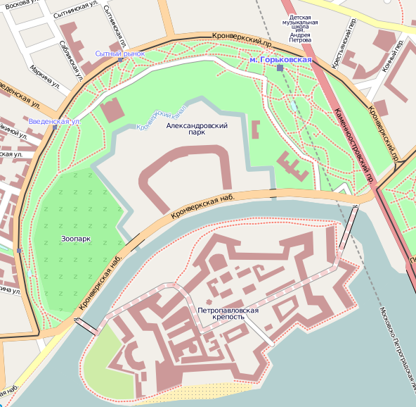 This map may be incomplete, and may contain errors. Don't rely solely on it for navigation.